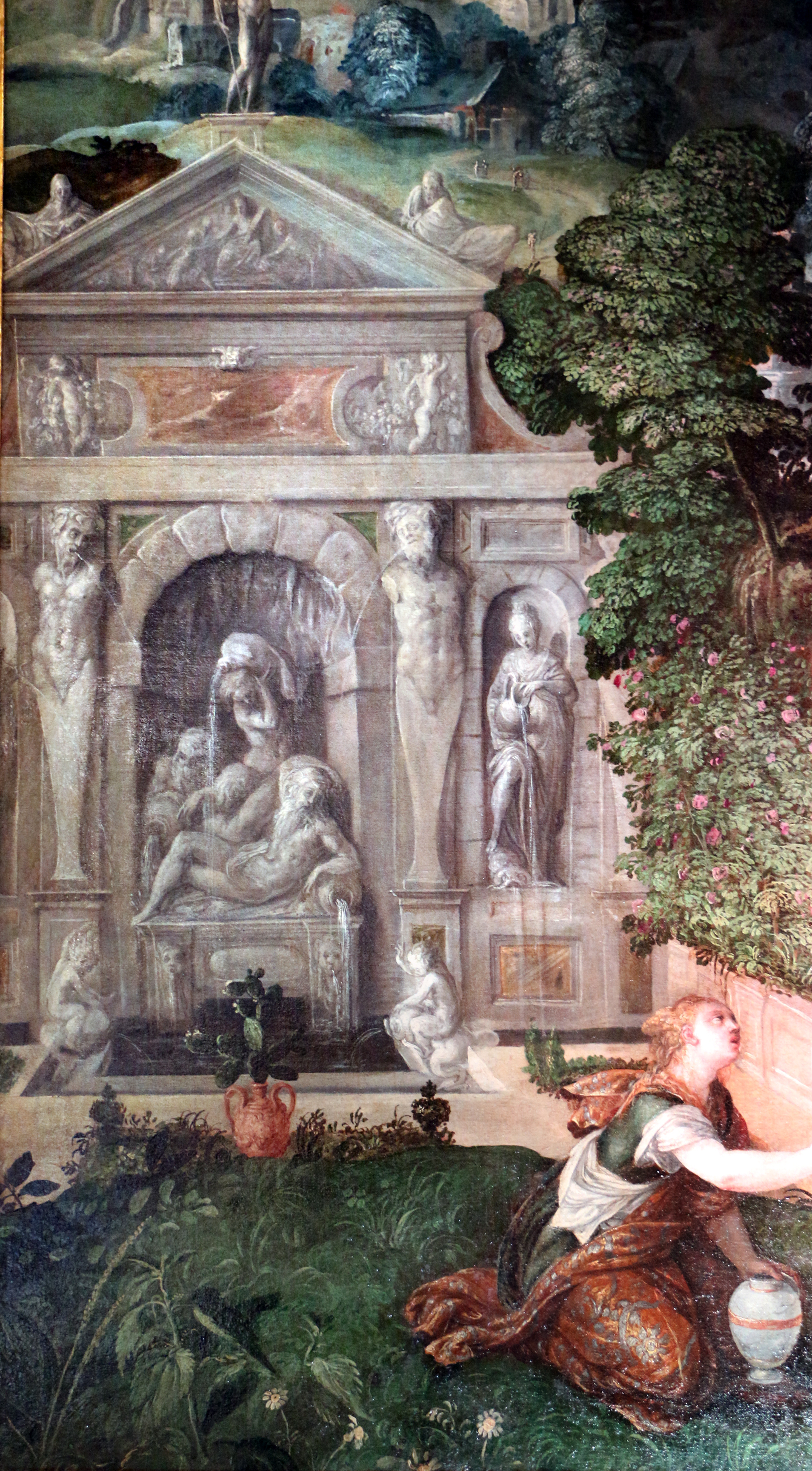 Galleria Colonna (Rome)